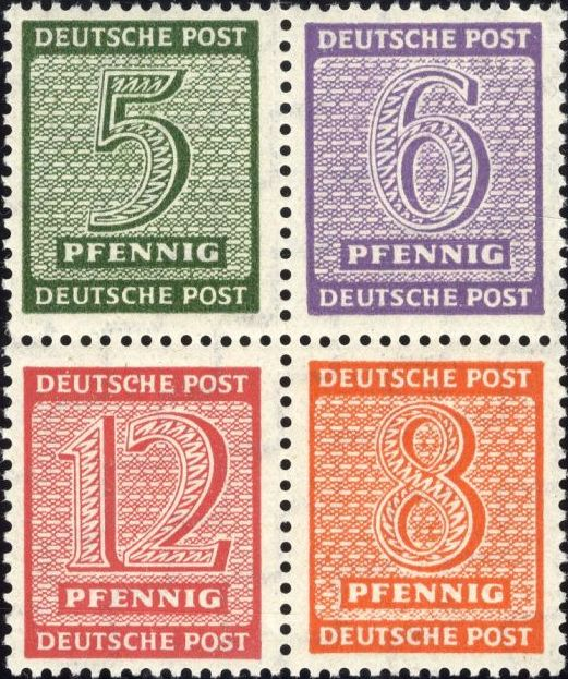 Series of stamps of the Soviet occupation zone, West-Saxony, Numbers (II)